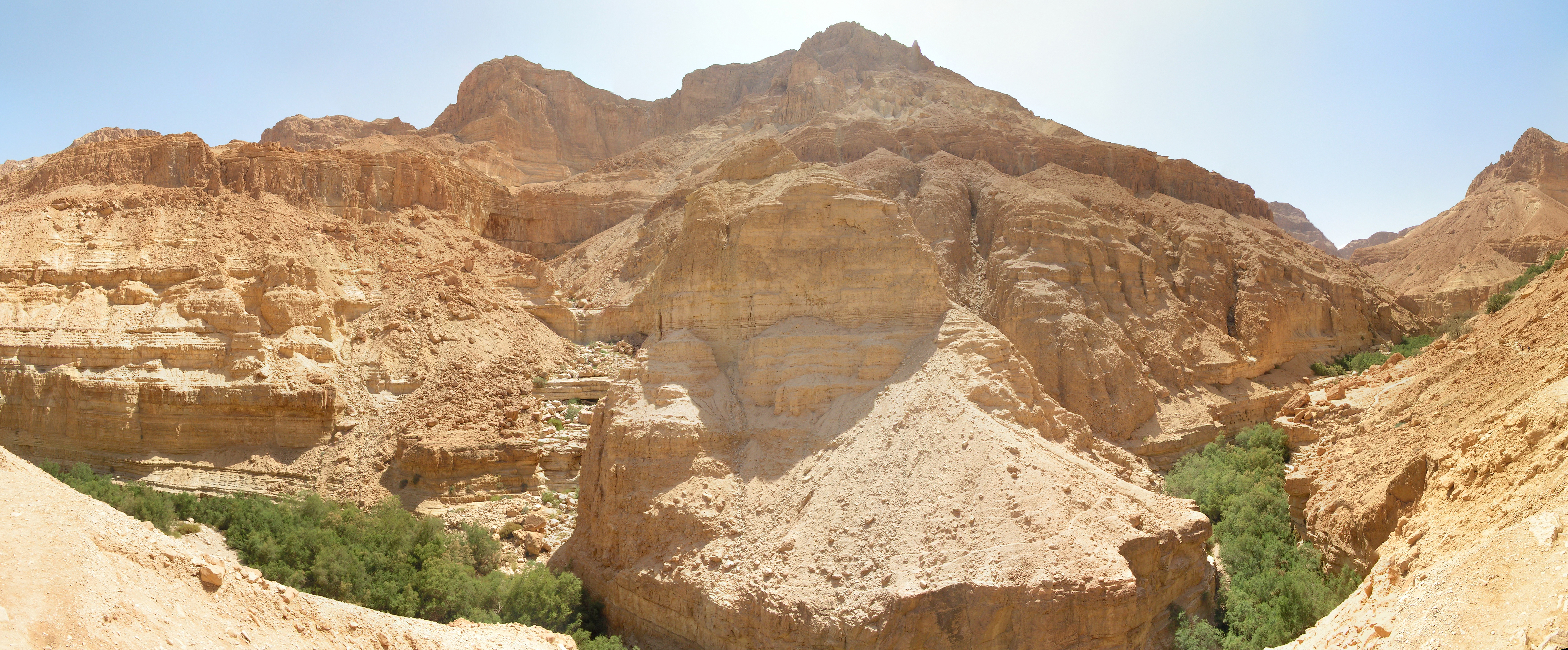 Panoramic view of Wadi Arugot from the red hiking track.